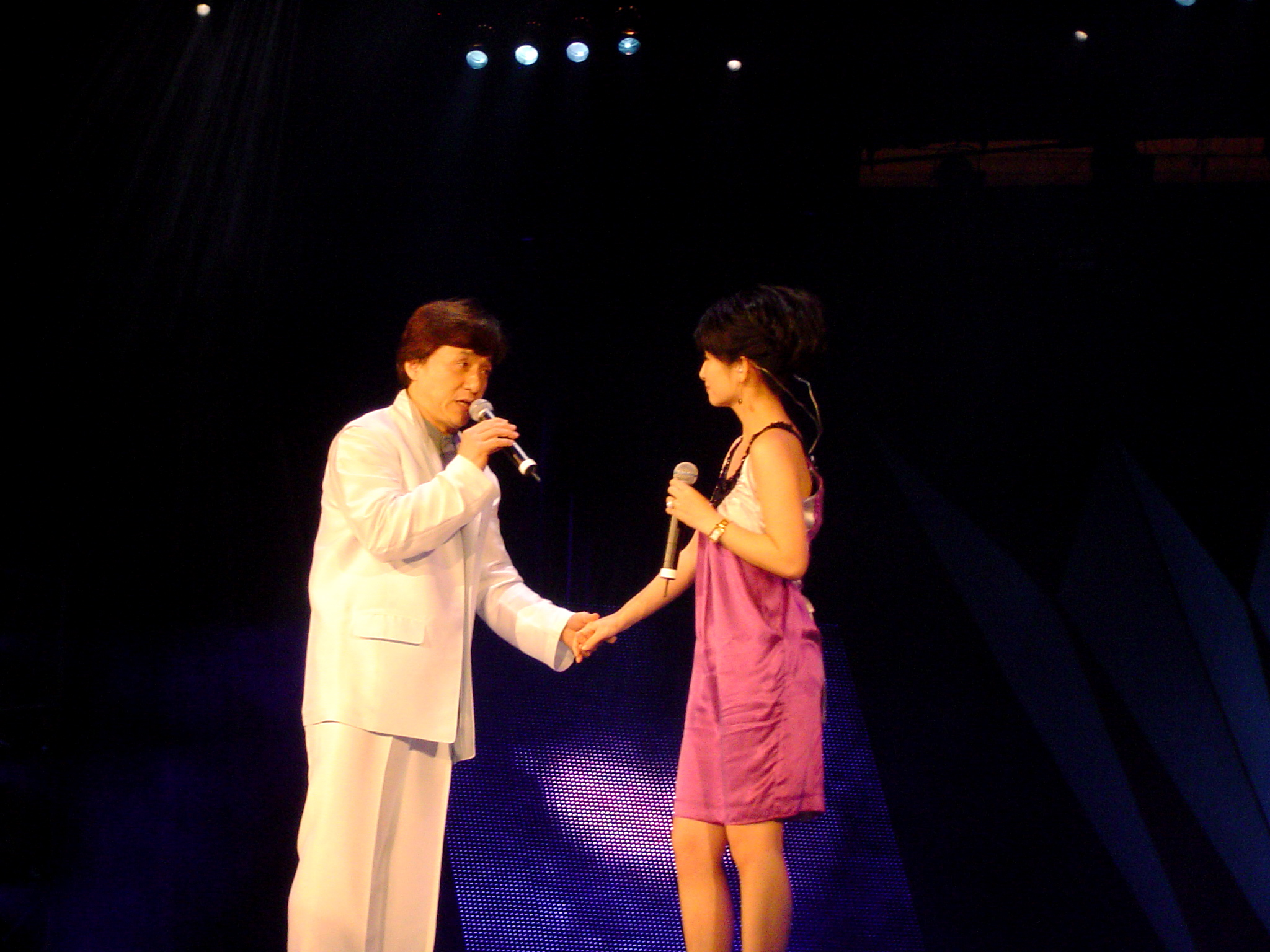 Jackie Chan and a female singer